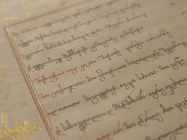 Knight in the Panther's Skin. XVII c.